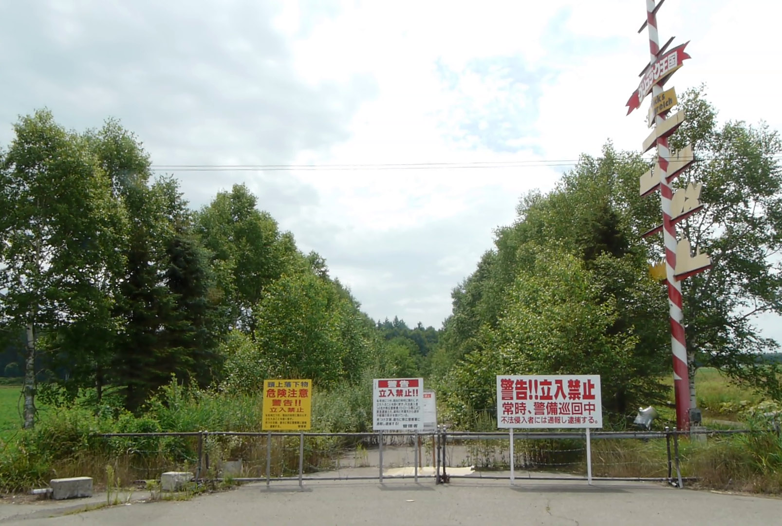 Warning signs in front of Guryukku Kingdom in Obihiro, Hokkaido